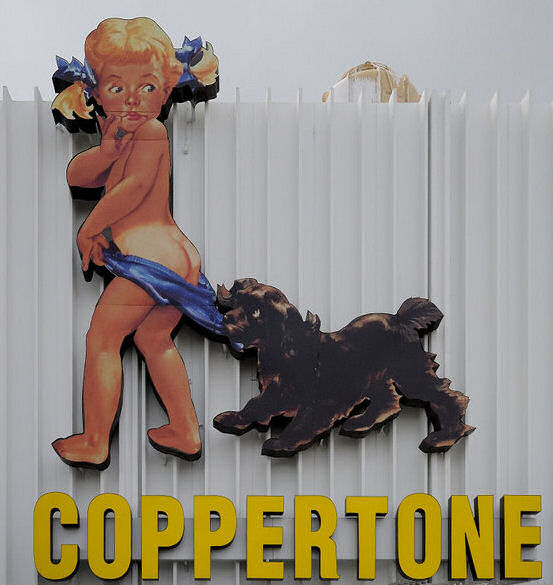 Coppertone girl sign at new location at 7300 Biscayne Blvd in Miami (25.8424415,-80.1844316)